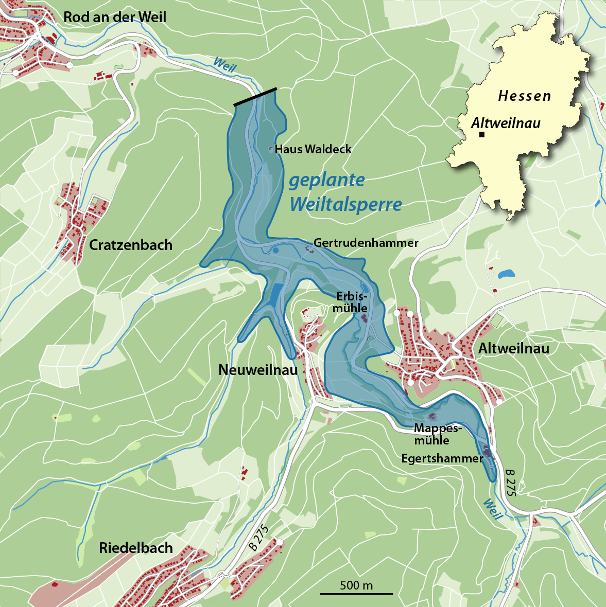 Map of unbuilt reservoir Weiltalsperre This map may be incomplete, and may contain errors. Don't rely solely on it for navigation.